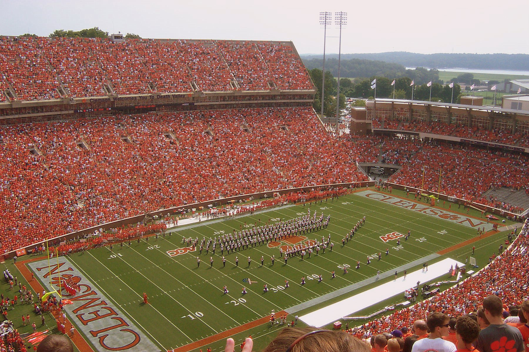 I am the creator of this image.